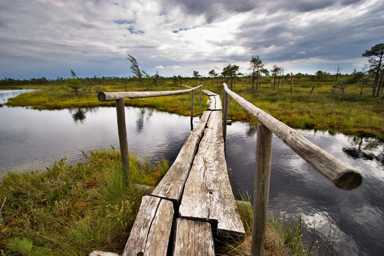 Kemeri swamps